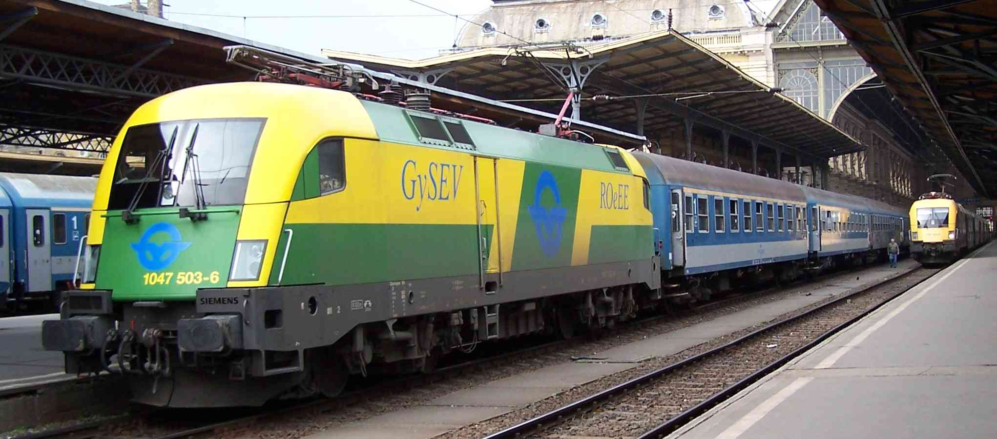 A hungarian train